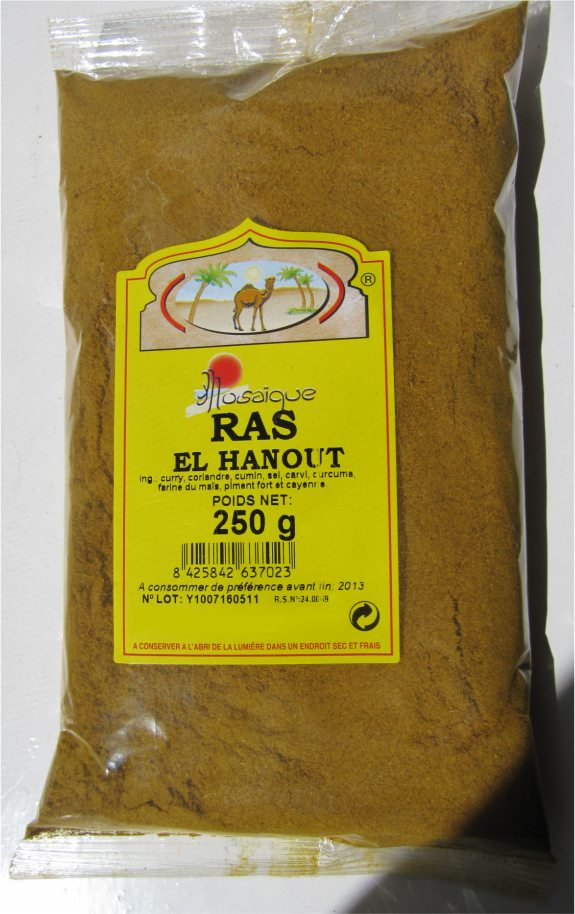 Neutrally packed Ras-el-Hanout spice mixture from Morocco (without any brand name)